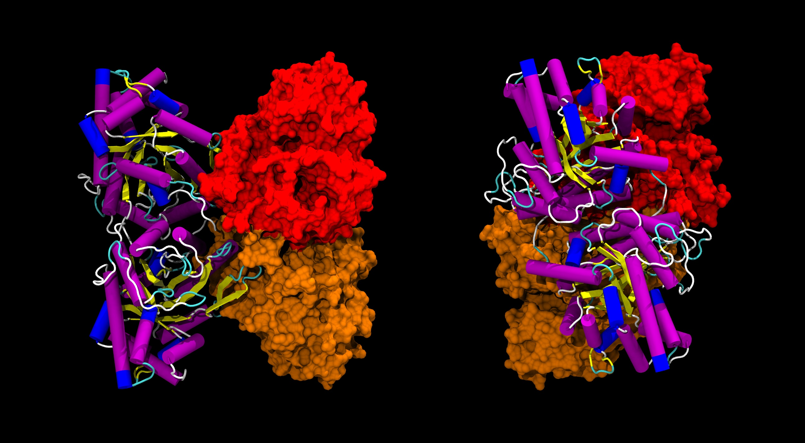 ribbon/surface model of human aldolase A tetramer, after PDB 1ALD. Ref.: S.J.Gamblin et al. (1991). Activity and specificity of human aldolases. In: J Mol Biol, 219, 573-576. PMID 2056525. This image was created with VMD